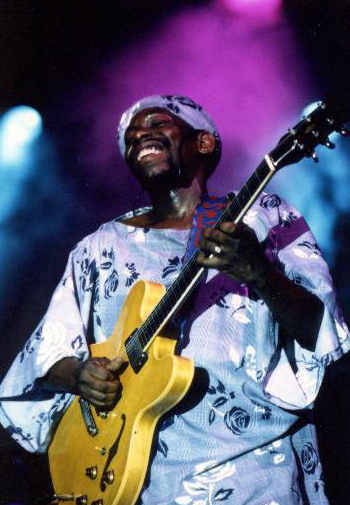 Le chanteur-oragniste-guitariste Lucky Peterson au Festival National de Blues du Creusot (France, 71) en 1994.